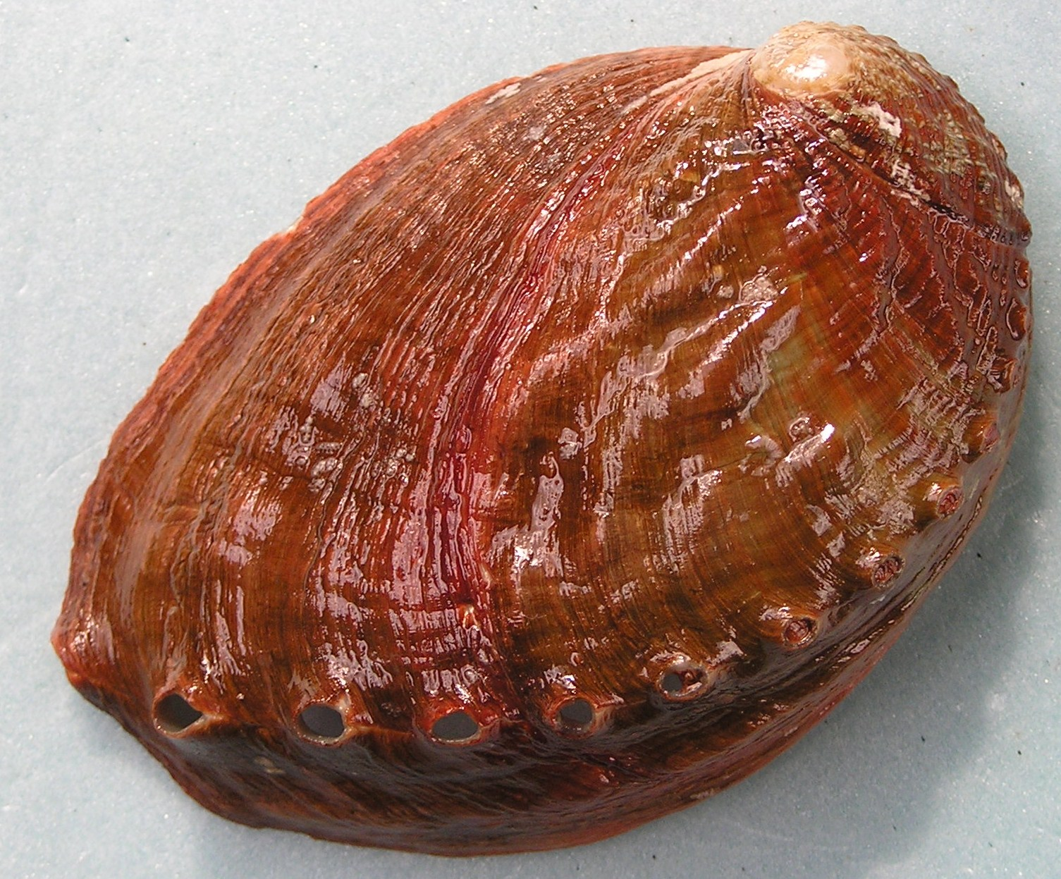 Dorsal view of a shell of H. discus